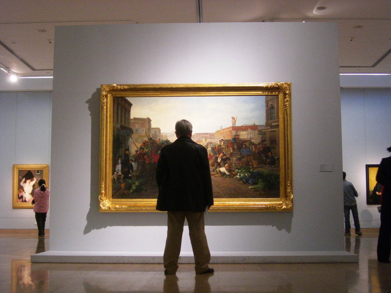 Art displays at the National Art Museum of China in Beijing